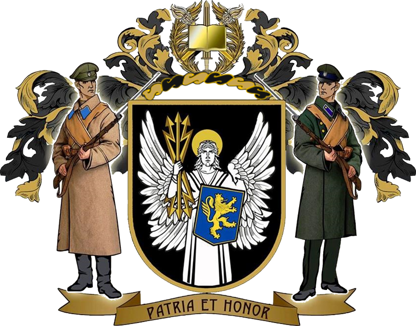 Coat of Arms, Military Institute of Telecommunications and Information Technologies